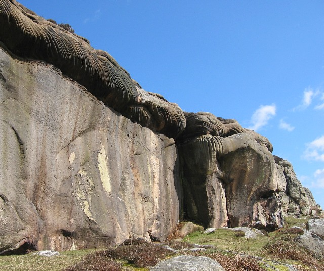 Bowden Doors Quality Northumbrian sandstone with good landings makes this one of the finest bouldering crags in Britain! This section with its spectacular sandstone cornice gives some real test pieces. A crag classic "Poseidon Adventure"(E4 6a) takes the overhang at the obvious weakness (10m left of the dark corner) To the right of this corner another classic route "Barbarian" (E5 6b) this takes the thin crack before breaking left, with some difficulty, onto the flutes above.